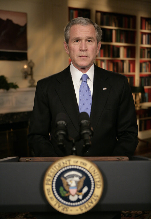 President George W. Bush concludes his address to the nation Wednesday evening, January 10, 2007, from the White House Library, where President Bush outlined a new strategy on Iraq